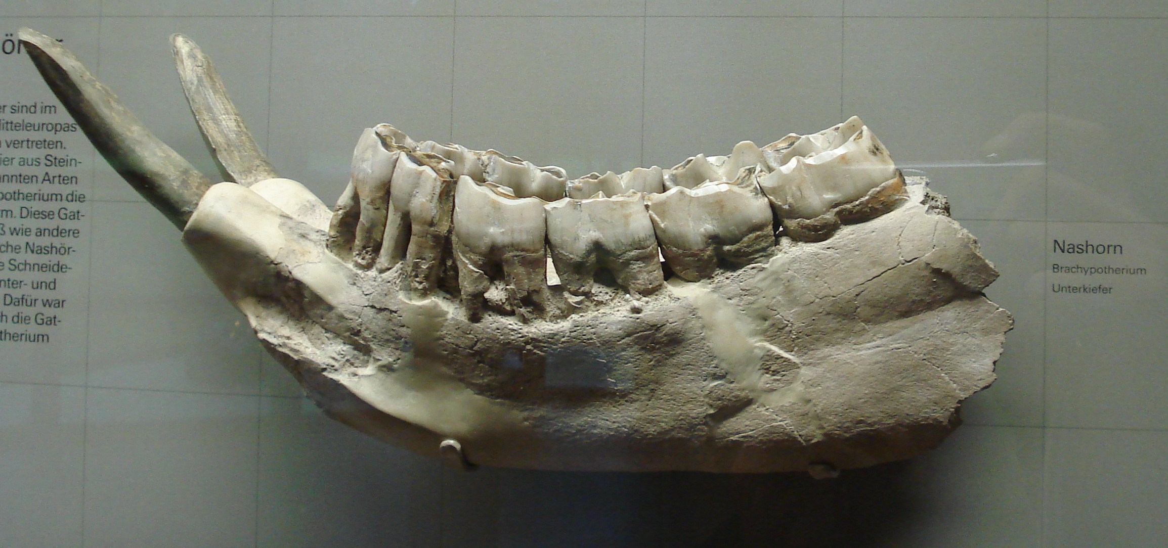 fossil of brachypotherium